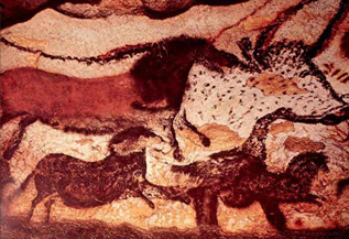 Lascaux Caves - Prehistoric Paintings